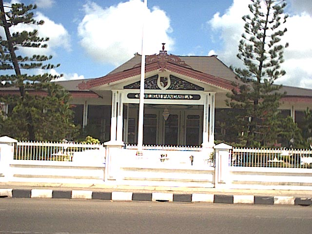 The South Kalimantan governor's residence in Banjarmasin, Indonesia